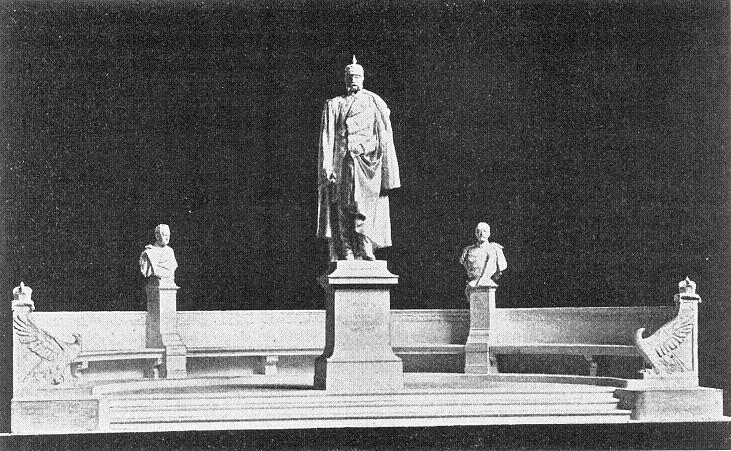 Non-realized first model of monument group № 32 for the former Siegesallee in Berlin, commemorating William I, German Emperor. The design was rejected by project's commissioner, William I's grandson William II. The bust on the left commemorates Helmuth von Moltke the Elder, and the bust on the right Otto von Bismarck. Sculptor: Reinhold Begas, 1899.